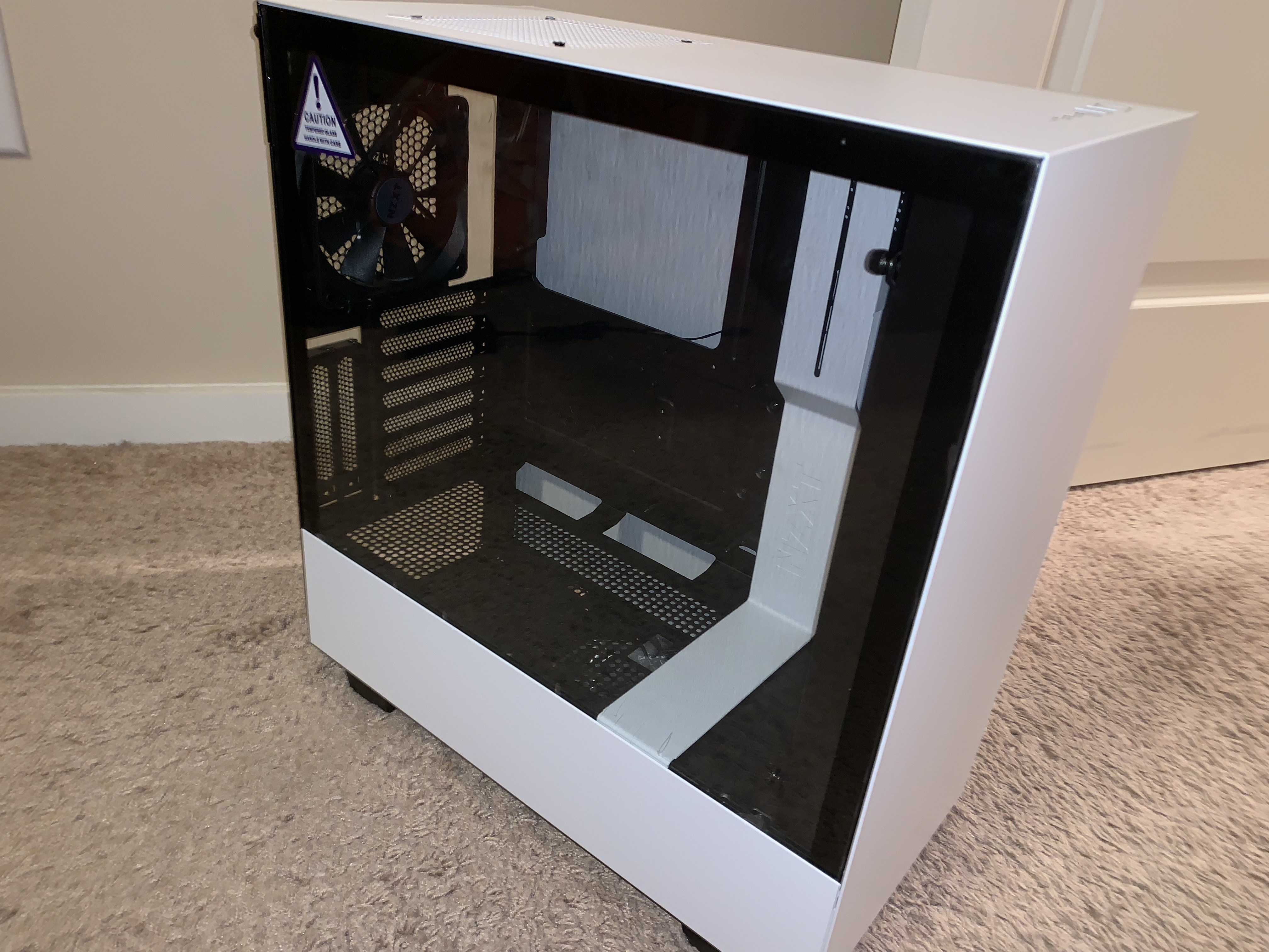 An empty NZXT H500i commputer case